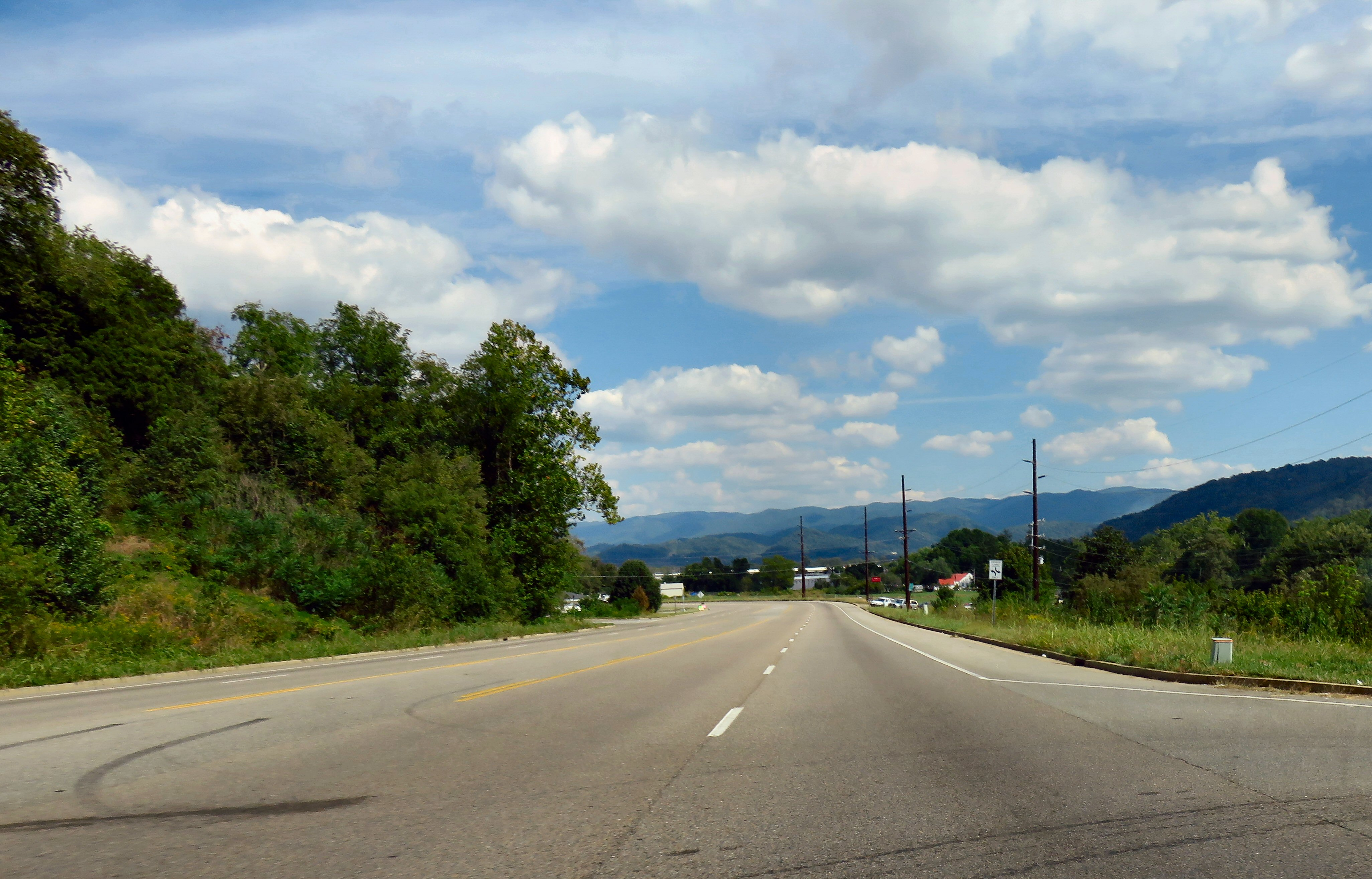 Tennessee State Route 91 near the Hunter community of Carter County, Tennessee, United States. The Iron Mountains span the horizon.